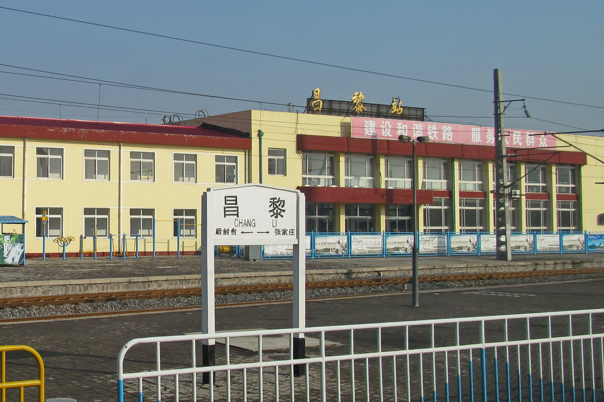 Changli Railway Station, Beijing-Harbin Railway